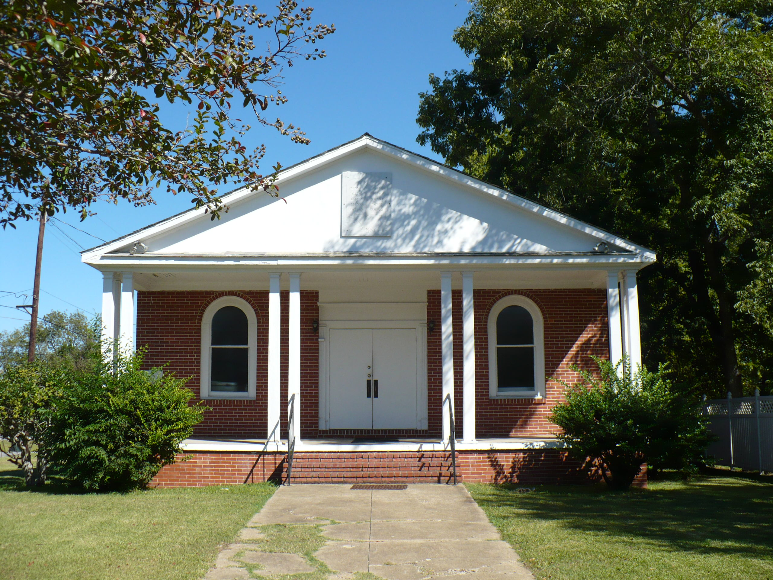 Temple B'Nai Jeshurun in Demopolis, Alabama, United States. Built in 1958 to replace an earlier Moorish Revival-style synagogue, completed in 1893. The congregation was founded in Demopolis in 1858.